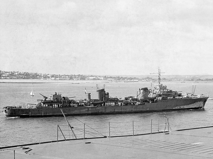 The French destroyer Le Triomphant underway in San Diego harbor, California (USA), circa 26 April 1941. Note the British type 4-inch anti-aircraft gun (at the rear of the after deck house) and light anti-aircraft machine guns added while she was in British hands during 1940. Among the latter is a French Hotchkiss 13.2 mm quad atop the after superstructure, just forward of the 4-inch gun. A false bow wave camouflage is painted on Le Triomphant's hull side, forward, to confuse estimates of the ship's speed.